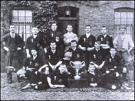 The Thames Ironworks F.C. in 1896, with the West Ham Charity Cup. Back row (left to right): Arnold Hills, French, Graham, Francis Payne, John Woods, William Hickman, Tom Robinson (trainer). Centre; William Chamberlain, George Sage, William Faram, William Chapman, William Barnes. Front; Johnny Stewart, Thomas Freeman.